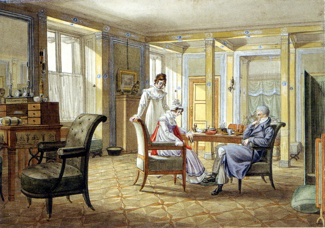 A so called "Zimmerbild" (chamber painting). Vienna, Austria. Early Victorian period.